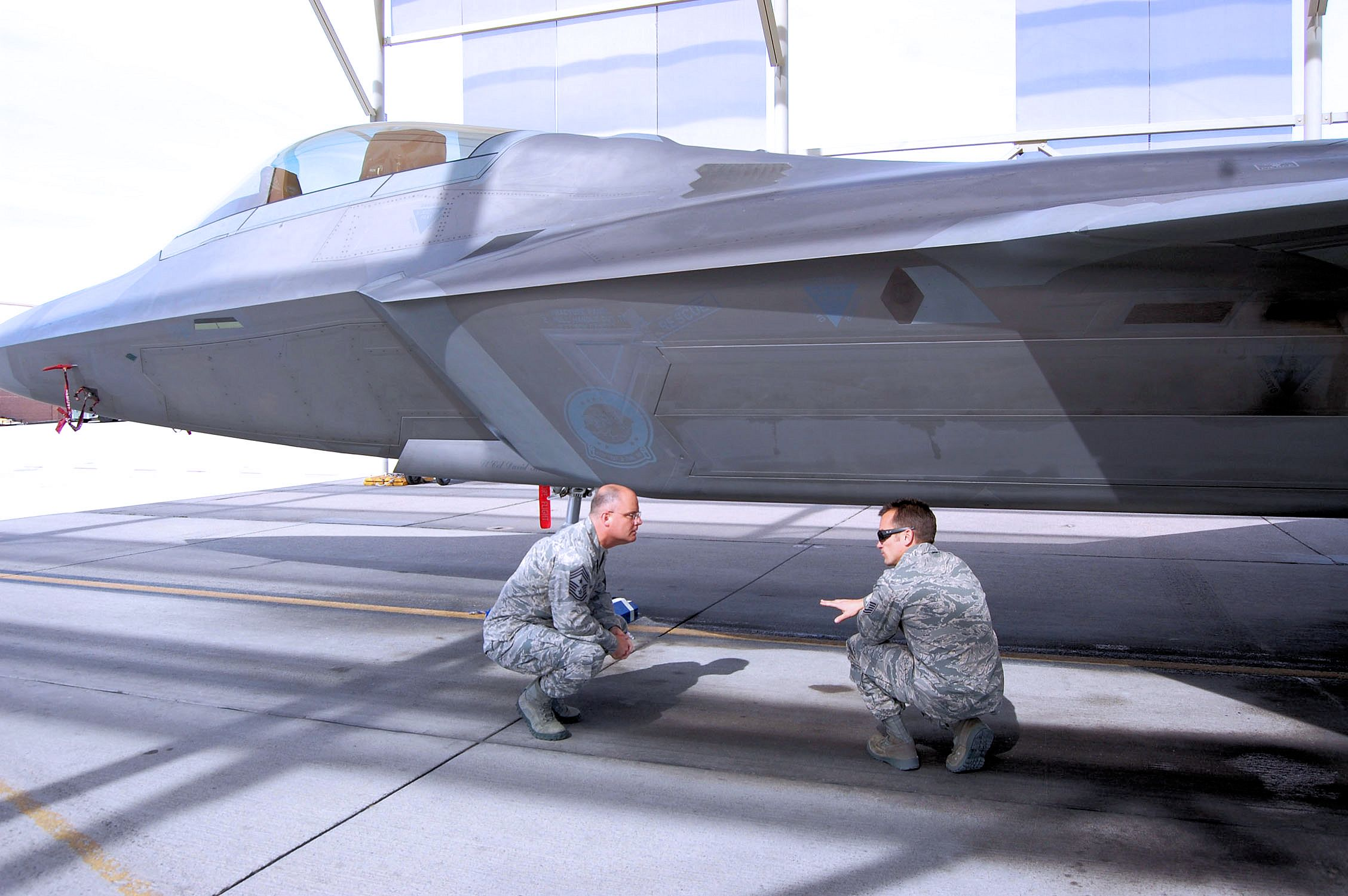 NELLIS AIR FORCE BASE, Nev. - Tech. Sgt. Donovan Williams, 926th Aircraft Maintenance Squadron (right), explains the intricacies of an F-22 Raptor to Chief Master Sgt. Dwight Badgett, Air Force Reserve Command Chief, during his visit to the 926th Group on March 6. Sergeant Williams is a reservist integrated into the 57th Maintenance Group here. (U.S. Air Force photo/Capt. Jessica Martin)